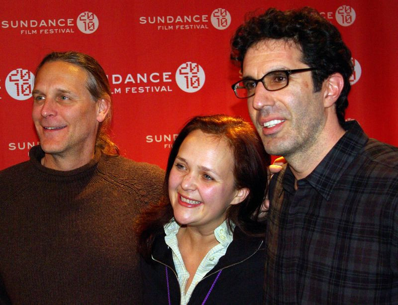 Gorskaya with Blitz and Welch at the 2010 Sundance Film Festival.